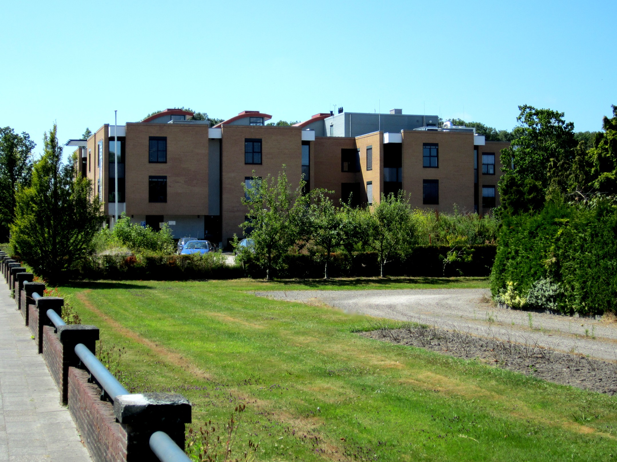 City hall of Waadhoeke, Franeker/Frjentsjer, Friesland, the Netherlands.